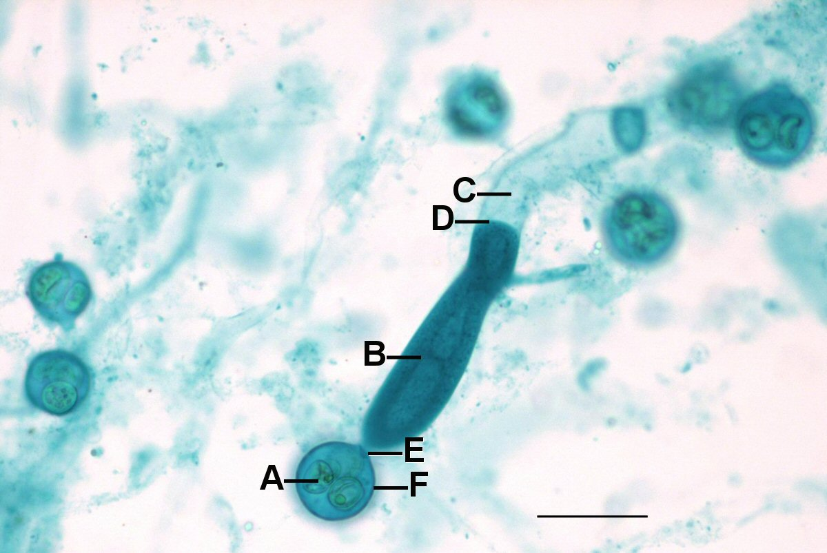 Light microscopy of Saprolegnia showing a close up view of an oognium with zygotes inside that is in contact with a zoosporangium filled with zoospores (that are contained by a septum) and the vegetative hypha. A=Zygote, B=Zoosporangium, C=Vegitative hypha, D=Zoosporangium septum, E=Oogonium septum, F=Oogonium. Scale bar = 0.2mm.